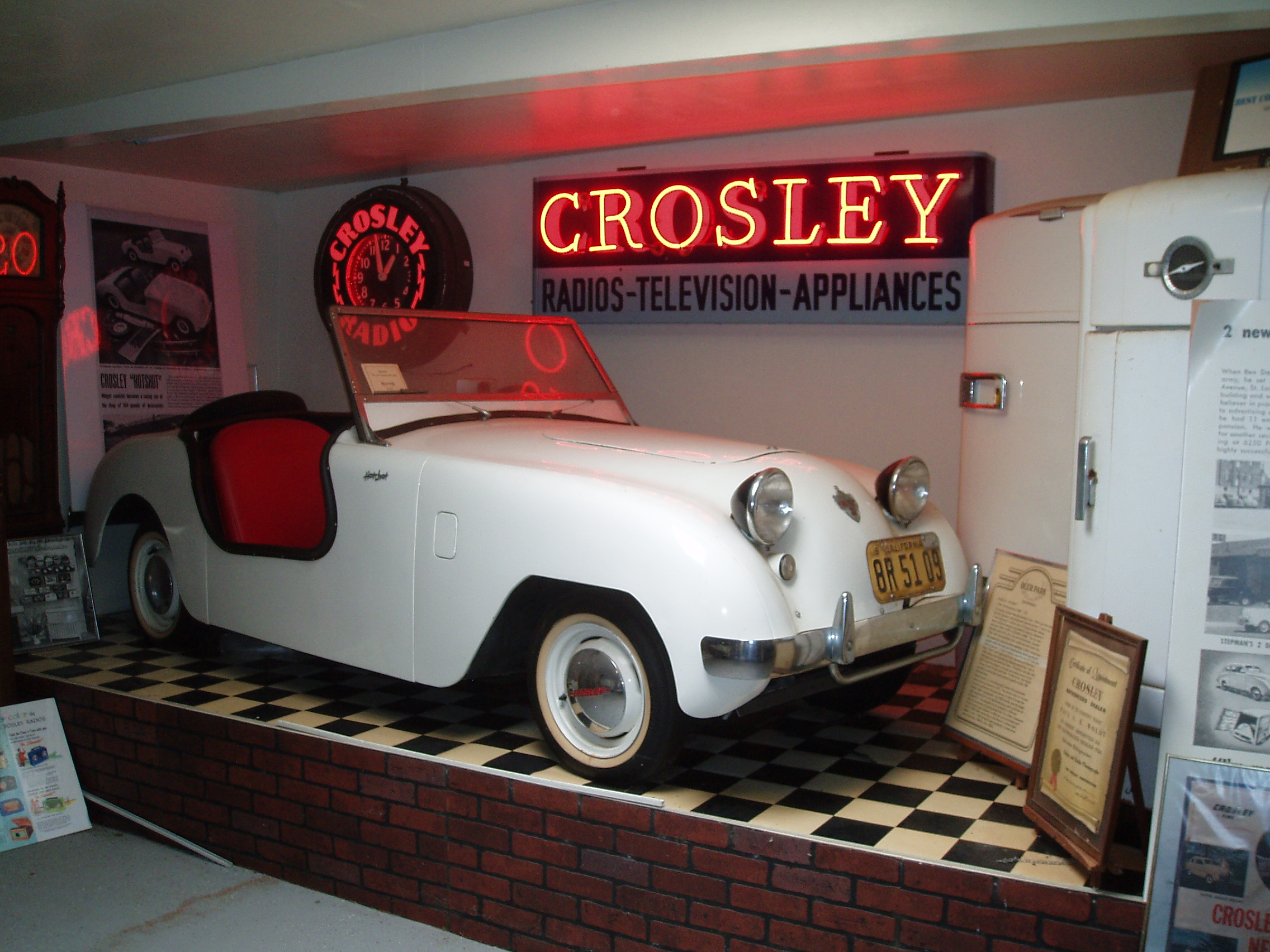 1949 Crosley Hotshot & Appliance Display, at the Deer Park Museum, Escondido CA, June 27, 2011